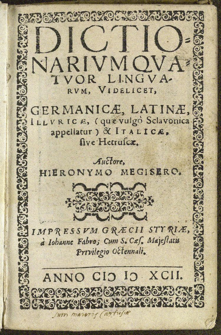 Dictionary German-Latin-Slovenian-Italian